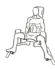 an exercise of thigh